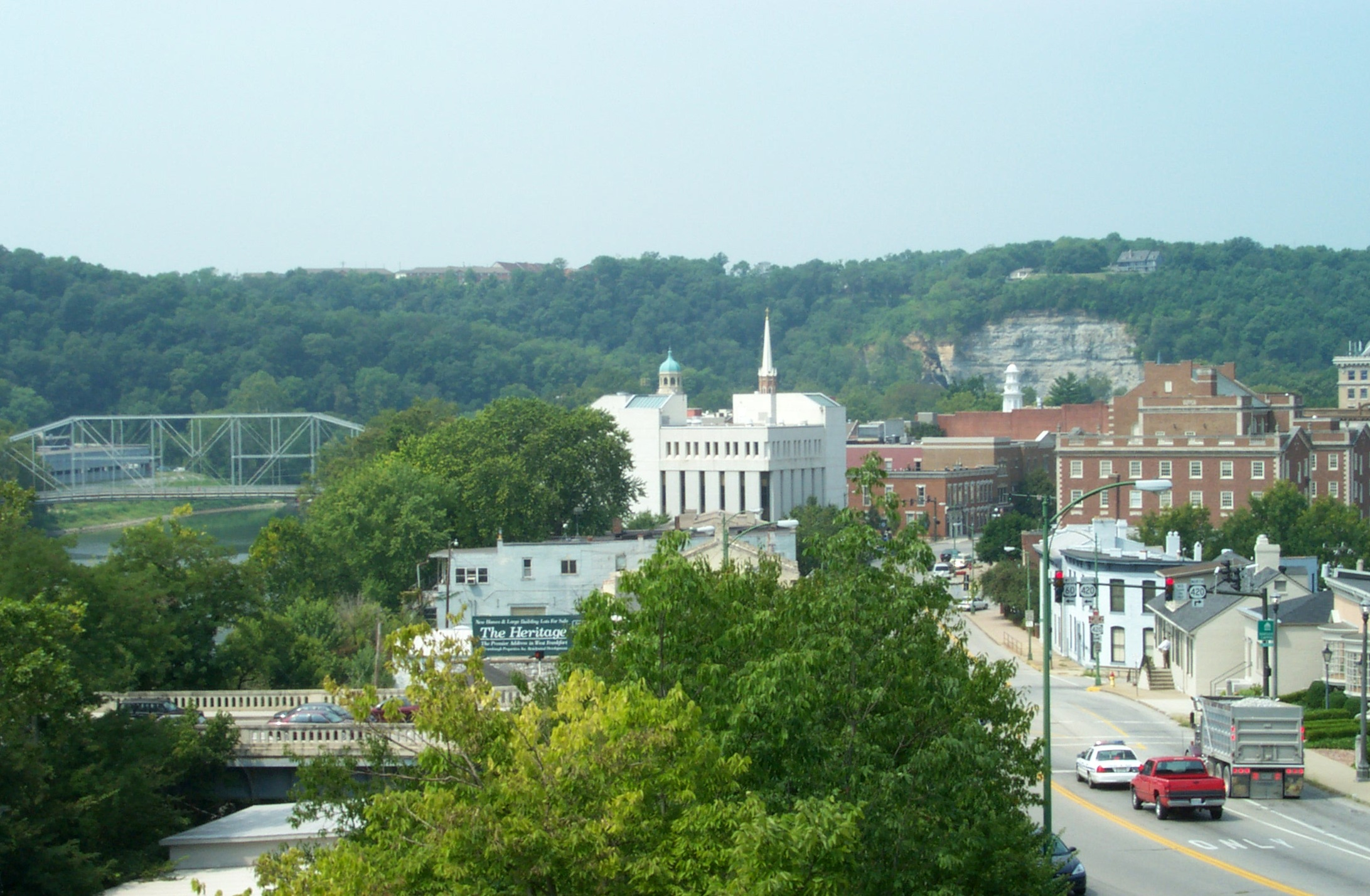 This image was copied from en. The original description was:Hilltop view of Frankfort, Kentucky USA.